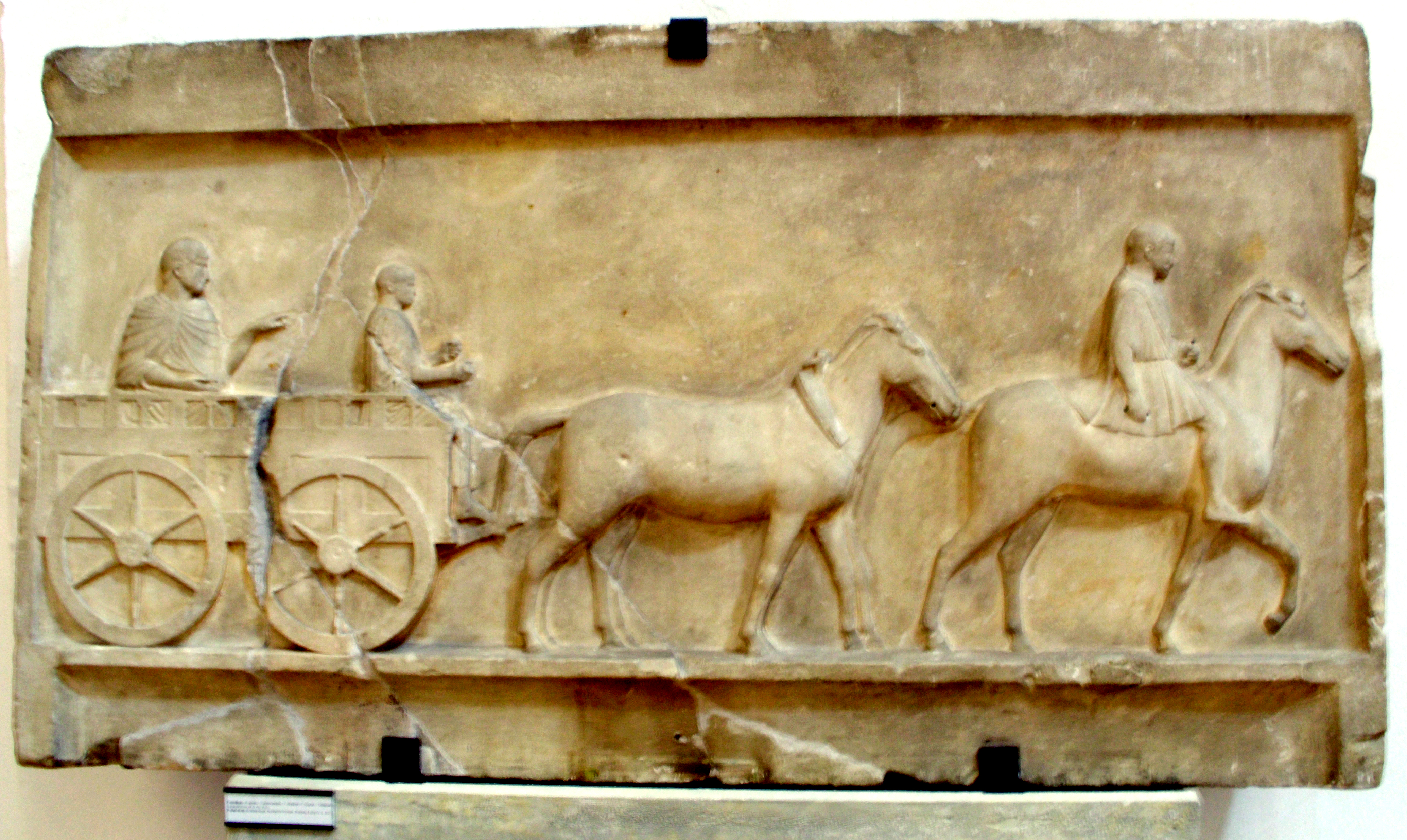 Dedeagach - Shapladere in Maritsa delta area - Thracian monumental slab 500 BC